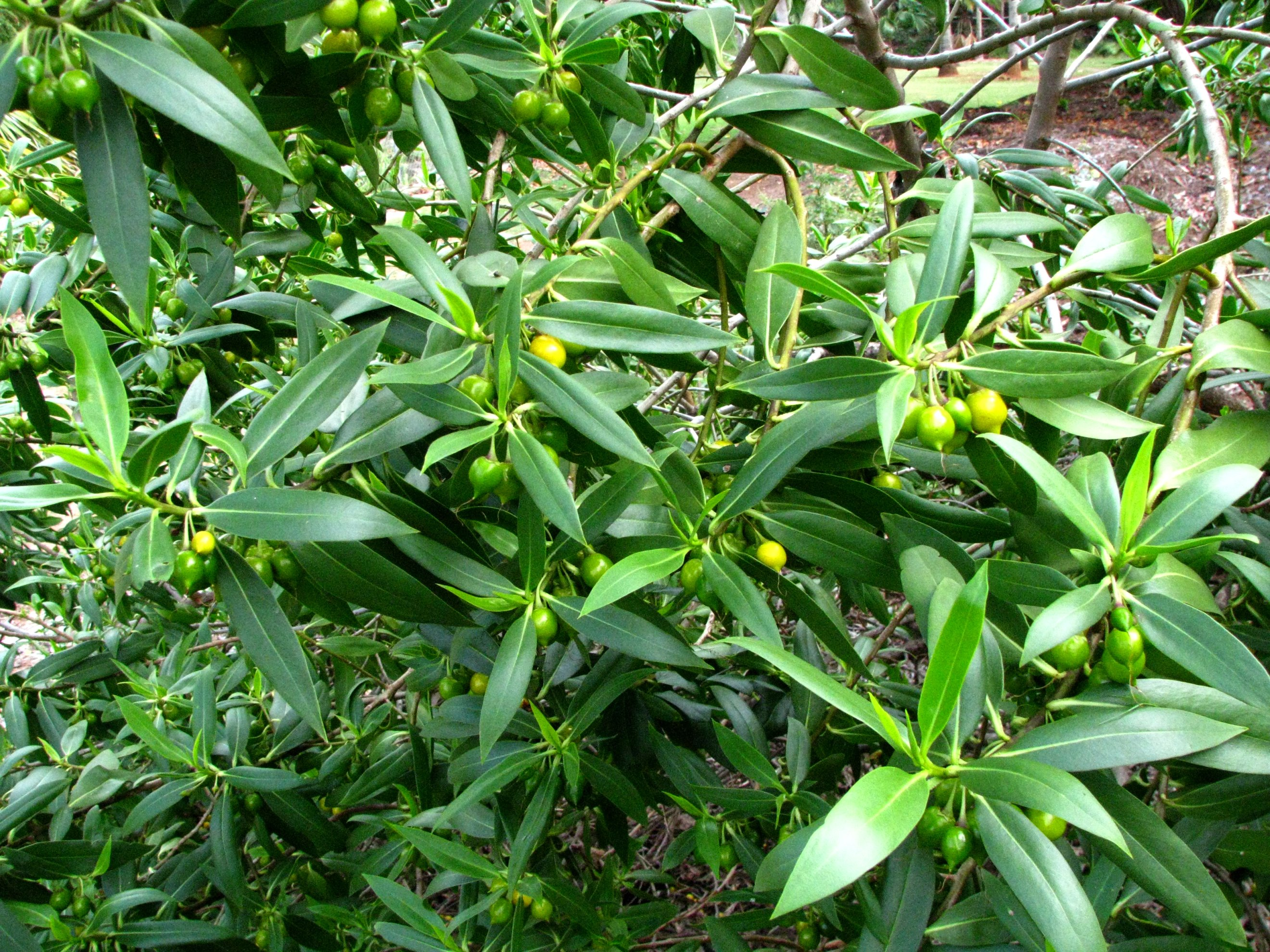 White alling or Sea olive Myoporaceae/Scrophulariaceae Native to the Bahamas, the Greater and Lesser Antilles, Aruba, Curaçao, Trinidad, Venezuela, and Guyana. Introduced into Florida. This plant: Oʻahu, Hawaiian Islands (Cultivated)